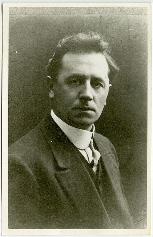 Arthur Francis Stacey (middle age)